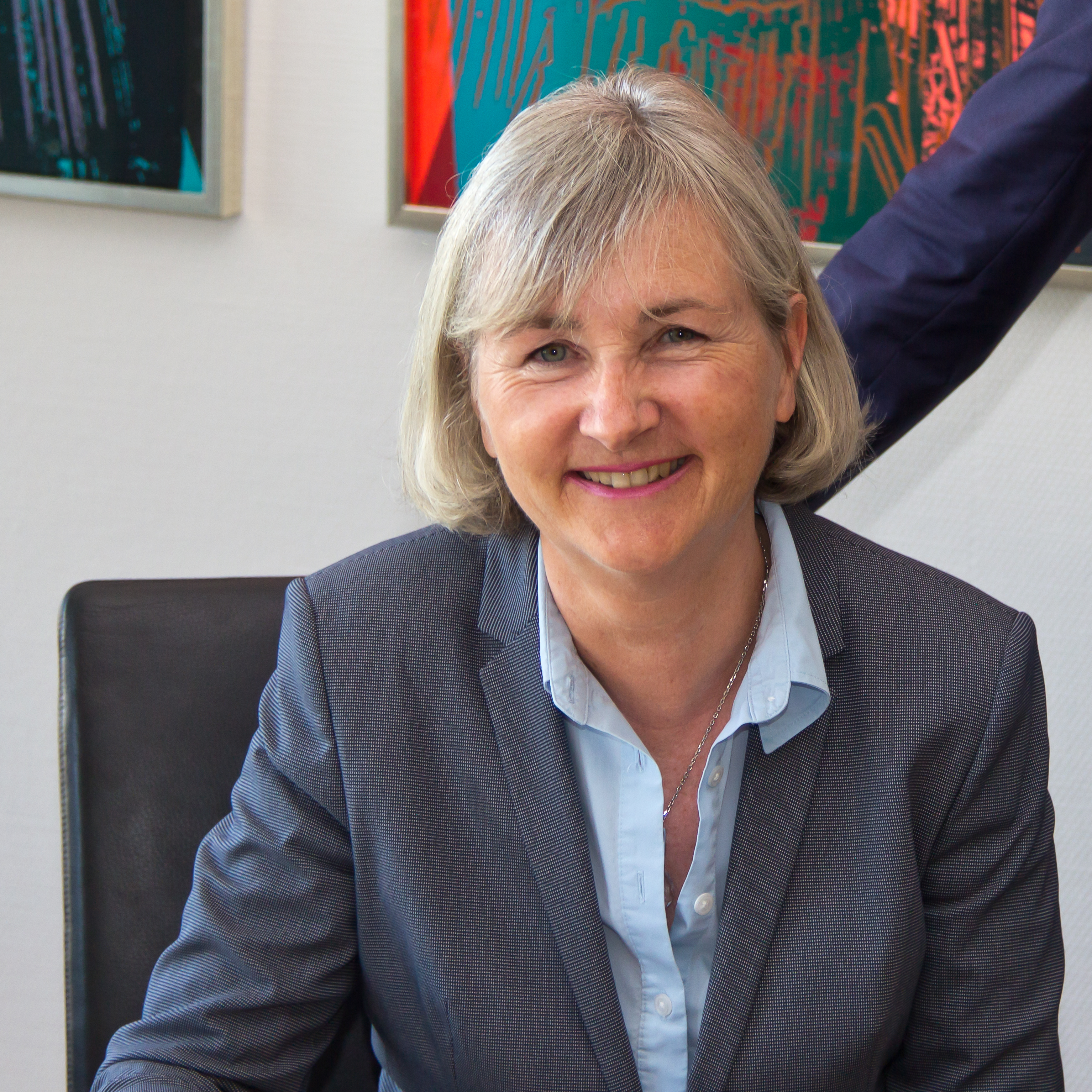 Inaugural visit of the amabassador of Canada to Germany, Marie Gervais-Vidricaire, in the town hall of Cologne